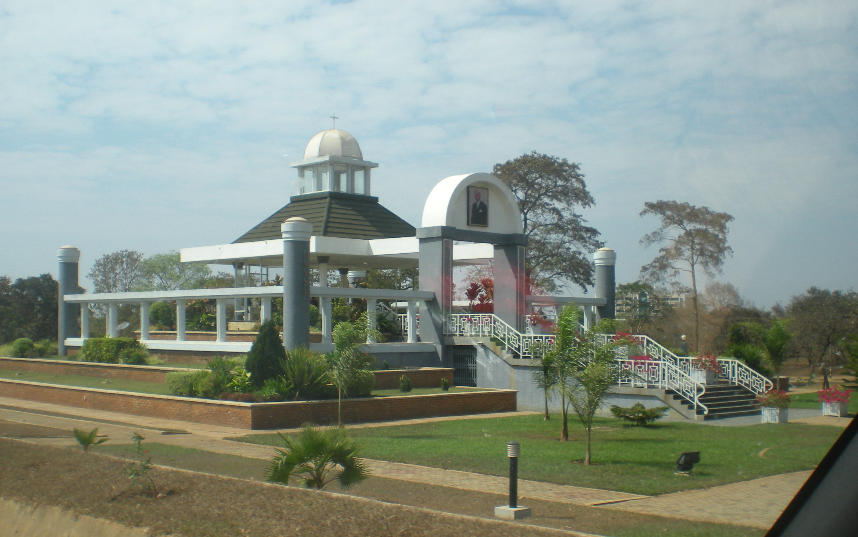 Kamuzu Mausoleum, Lilongwe, Malawi. This is the resting place for Malawi's first President, Dr. Hastings Kamuzu Banda. It is visited by locals and tourists alike.